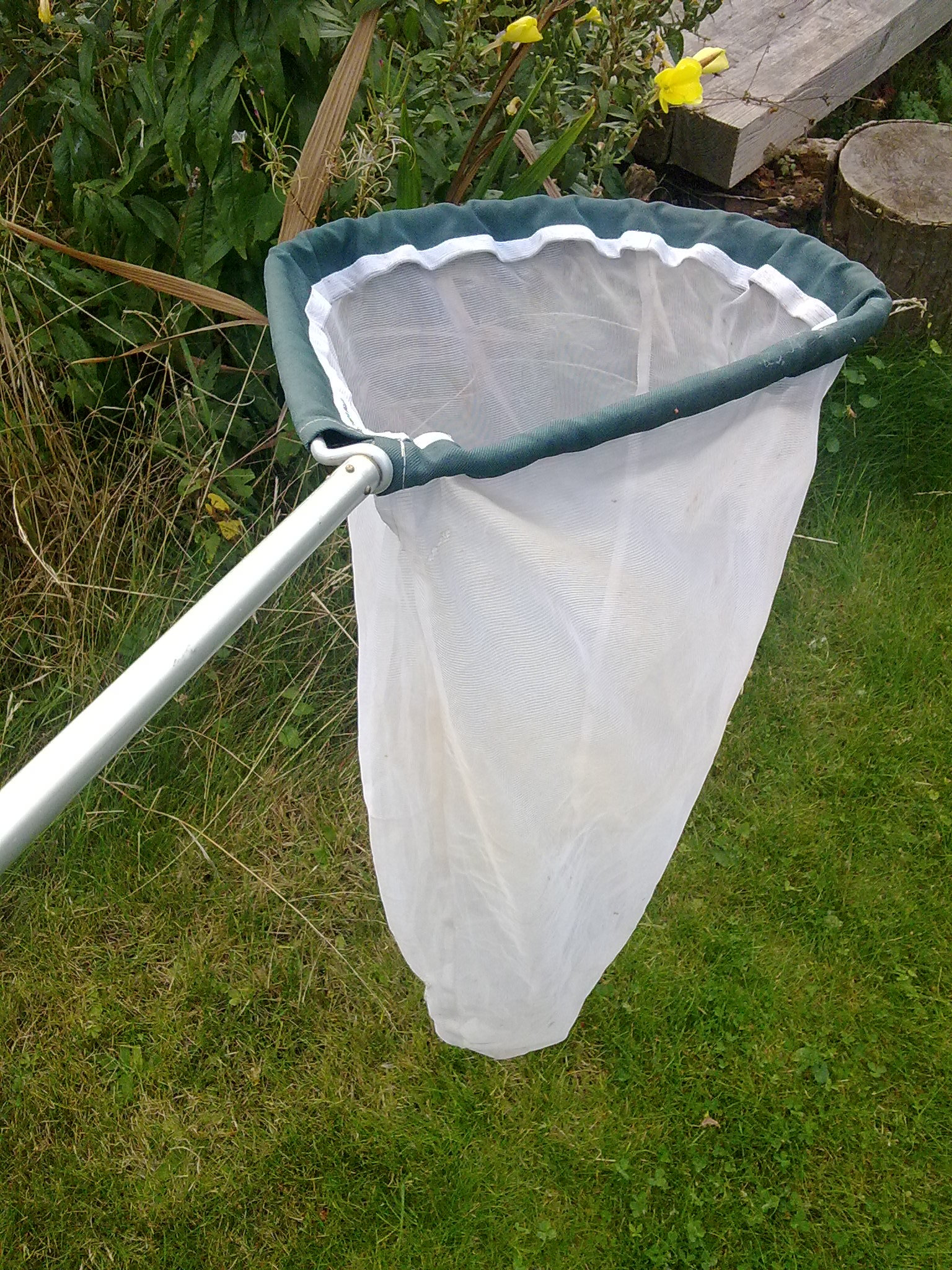 A modern butterfly net. This particular net is known as a kite net due to the kite-shaped frame.